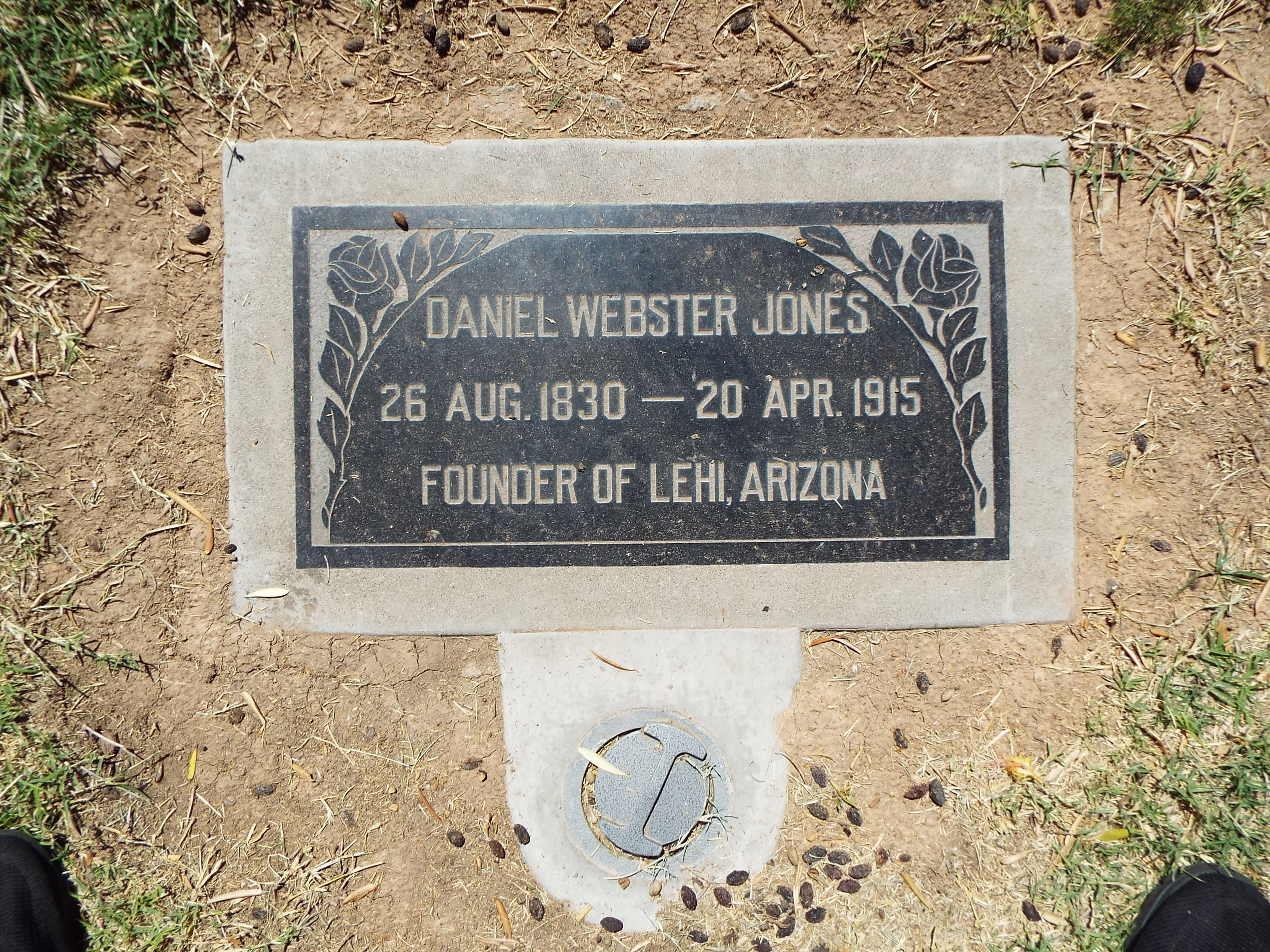 Daniel Webster Jones (1830-1915) – Jones was commissioned by Brigham Yong to start a Mormon settlement in the Salt River Valley of Arizona. The settlement was originally called Jonesville and later renamed Lehi. Lehi was eventually incorporated into Mesa. Jones is buried in Block 24, Lot 4, Grave 5 in the City of Mesa Cemetery in Mesa, Arizona.